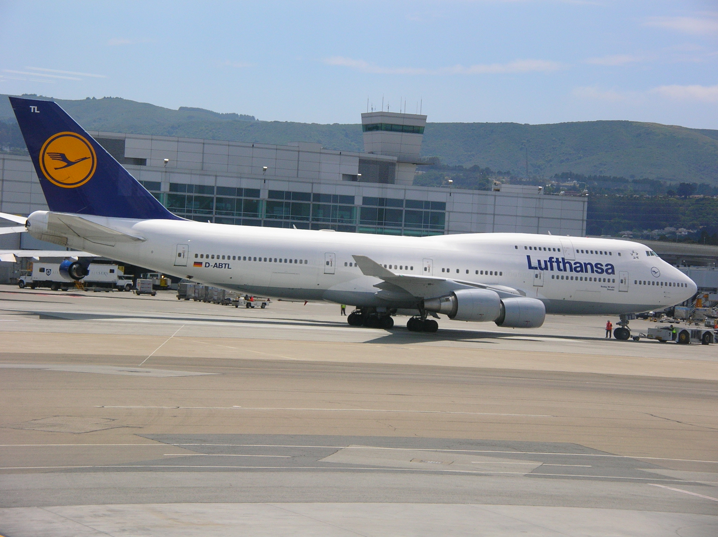 A Lufthansa Boeing 747-430, tail number D-ABTL, taxiing at San Francisco International Airport (SFO).